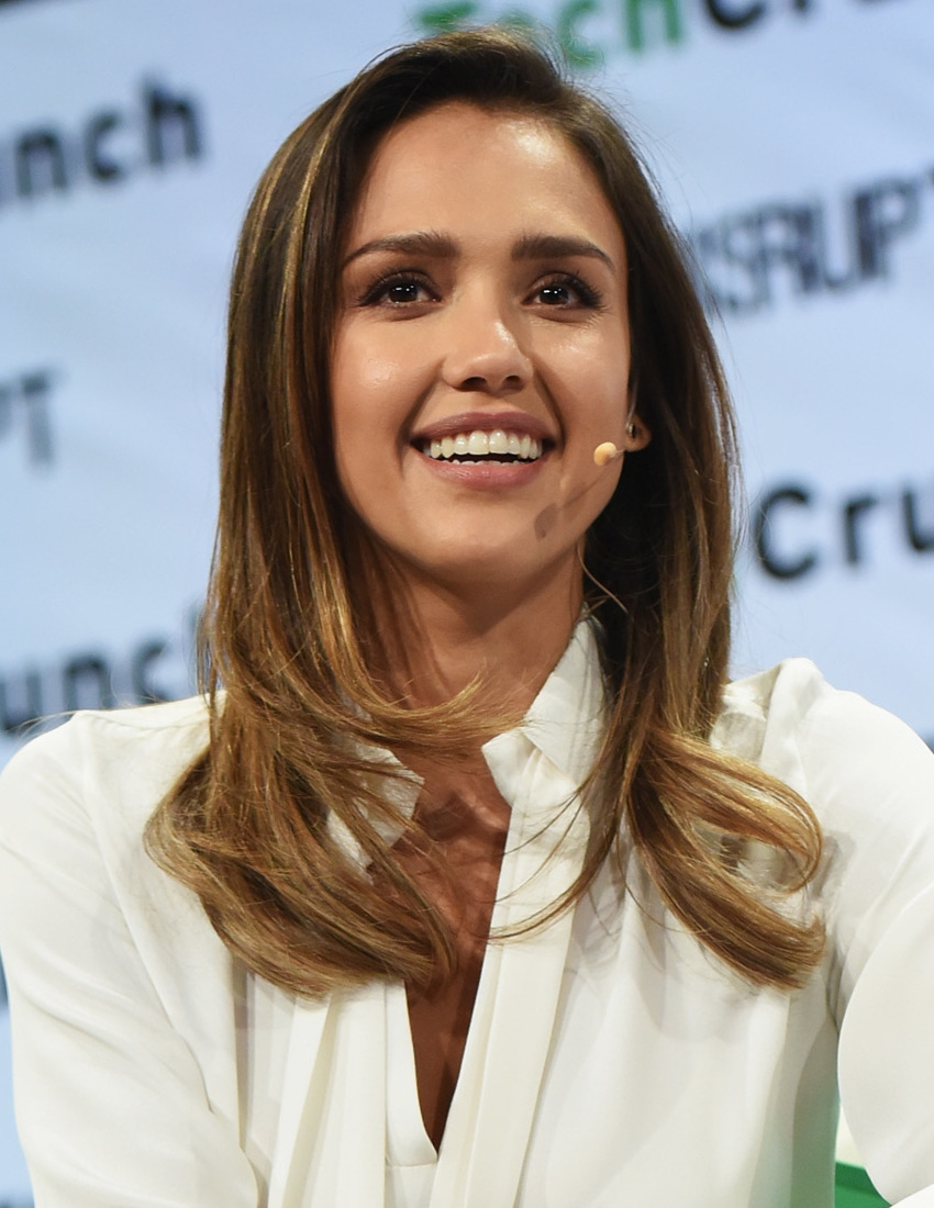 NEW YORK, NY - MAY 11: Founder and COO of The Honest Company Jessica Alba speaks onstage during TechCrunch Disrupt NY 2016 at Brooklyn Cruise Terminal on May 11, 2016 in New York City. (Photo by Noam Galai/Getty Images for TechCrunch)